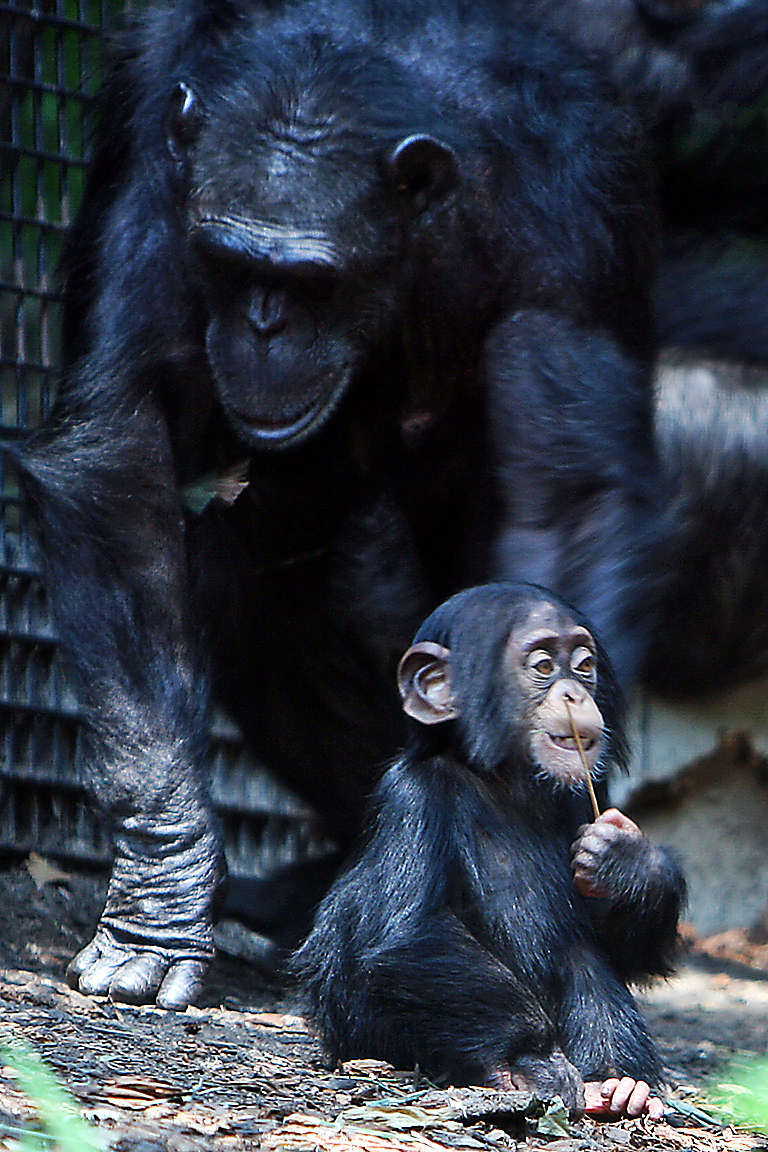 There is a baby chimp at the baltimore zoo - very cute. It's very difficult to take great photos of him (her?) because they are behind an inch-thick glass wall. the polarizer filter helped but I couldn't get great detail or pure focus. That's mom hovering protectively behind him.